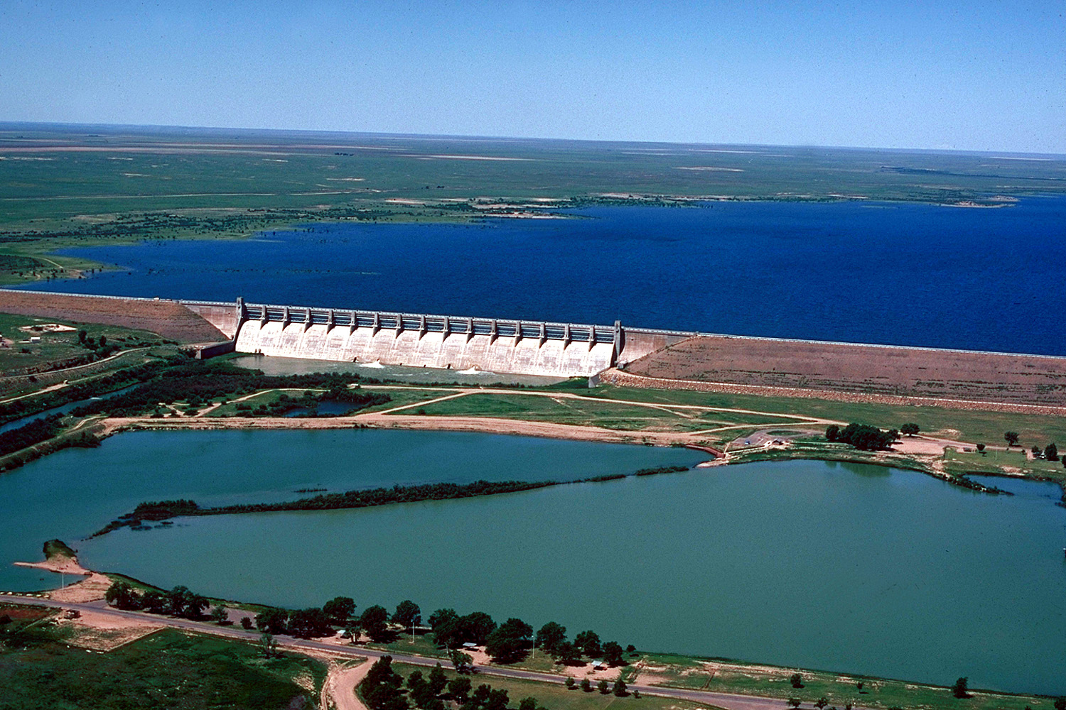 John Martin Dam and Reservoir on the Arkansas River in Bent County, Colorado, USA. The dam was constructed by the U.S. Army Corps of Engineers for flood control on the Arkansas River. Coordinates: 38°4′1.25″N 102°56′11.35″W / 38.0670139°N 102.9364861°W